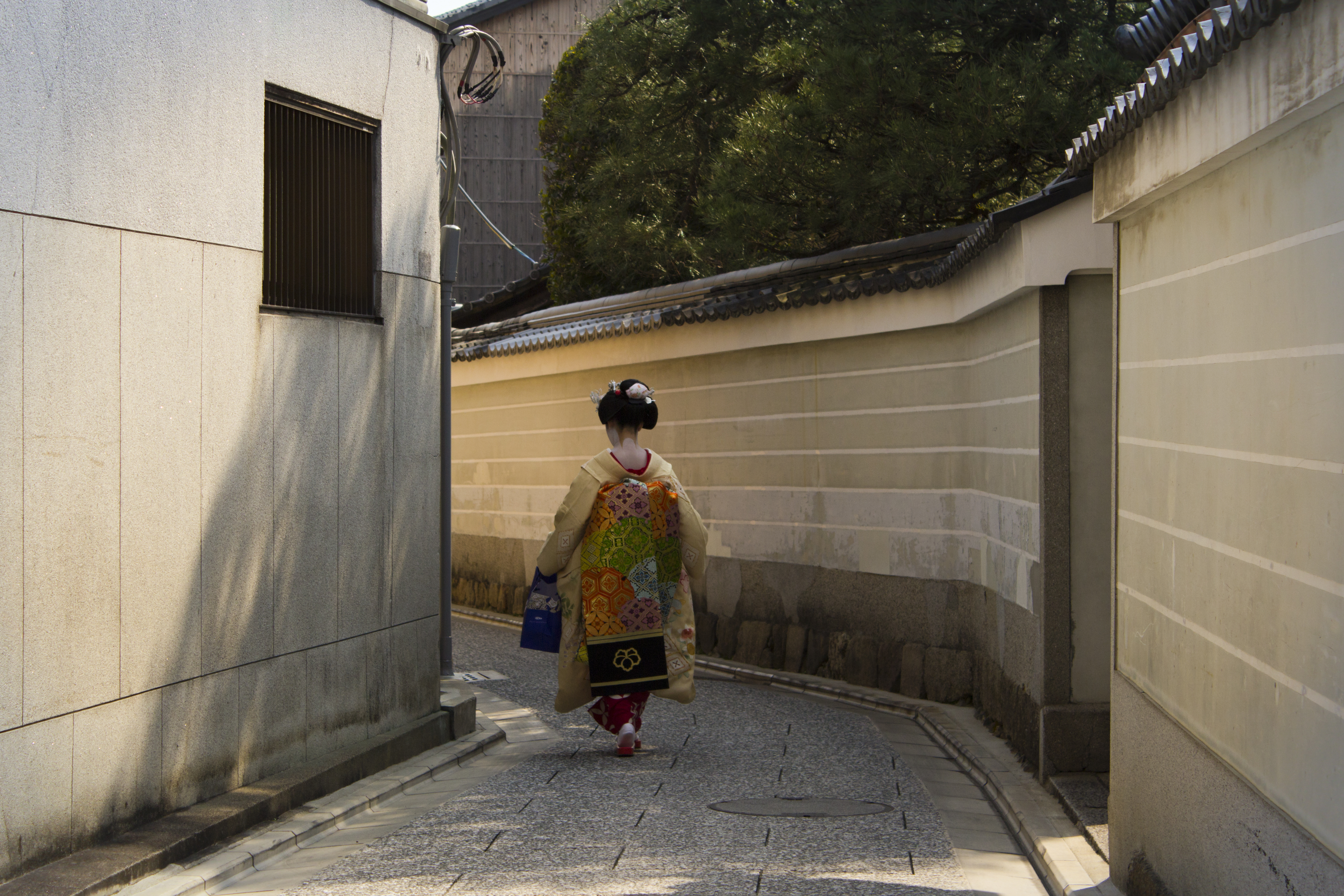 Maiko (geisha apprentice) in Kamishichiken, Kyoto. Senior, but not final year maiko. If of Kamishichiken, of Katsufumi or (much more likely) Nakasato.